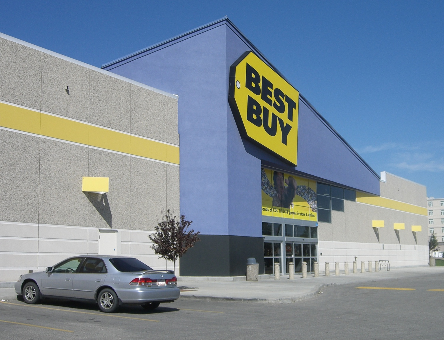 Best Buy, near West Edmonton Mall, Edmonton, Alberta